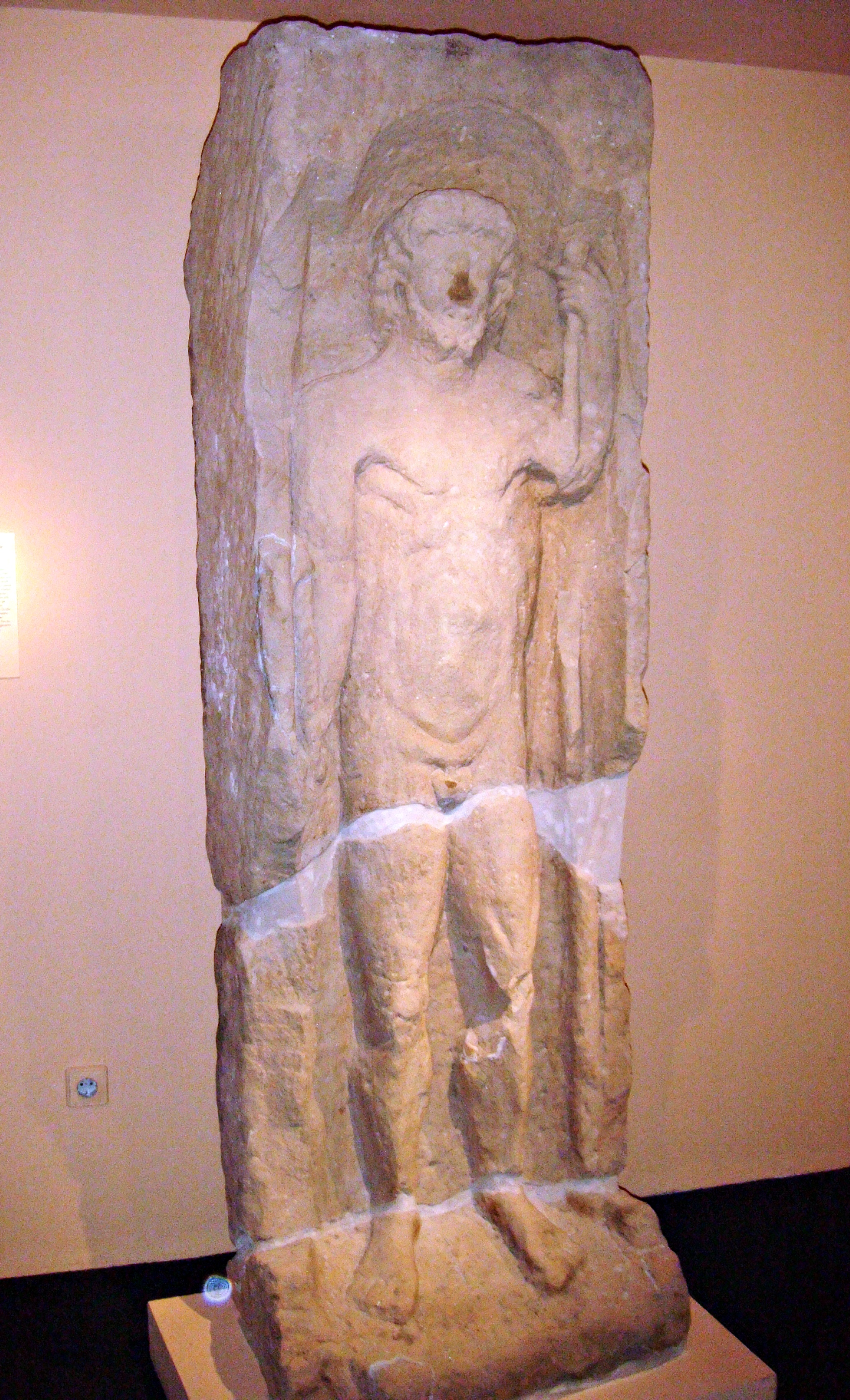 Jupiterstele aus Lautzkirchen (um 250 n. Chr.), heute Historisches Museum der Pfalz in Speyer